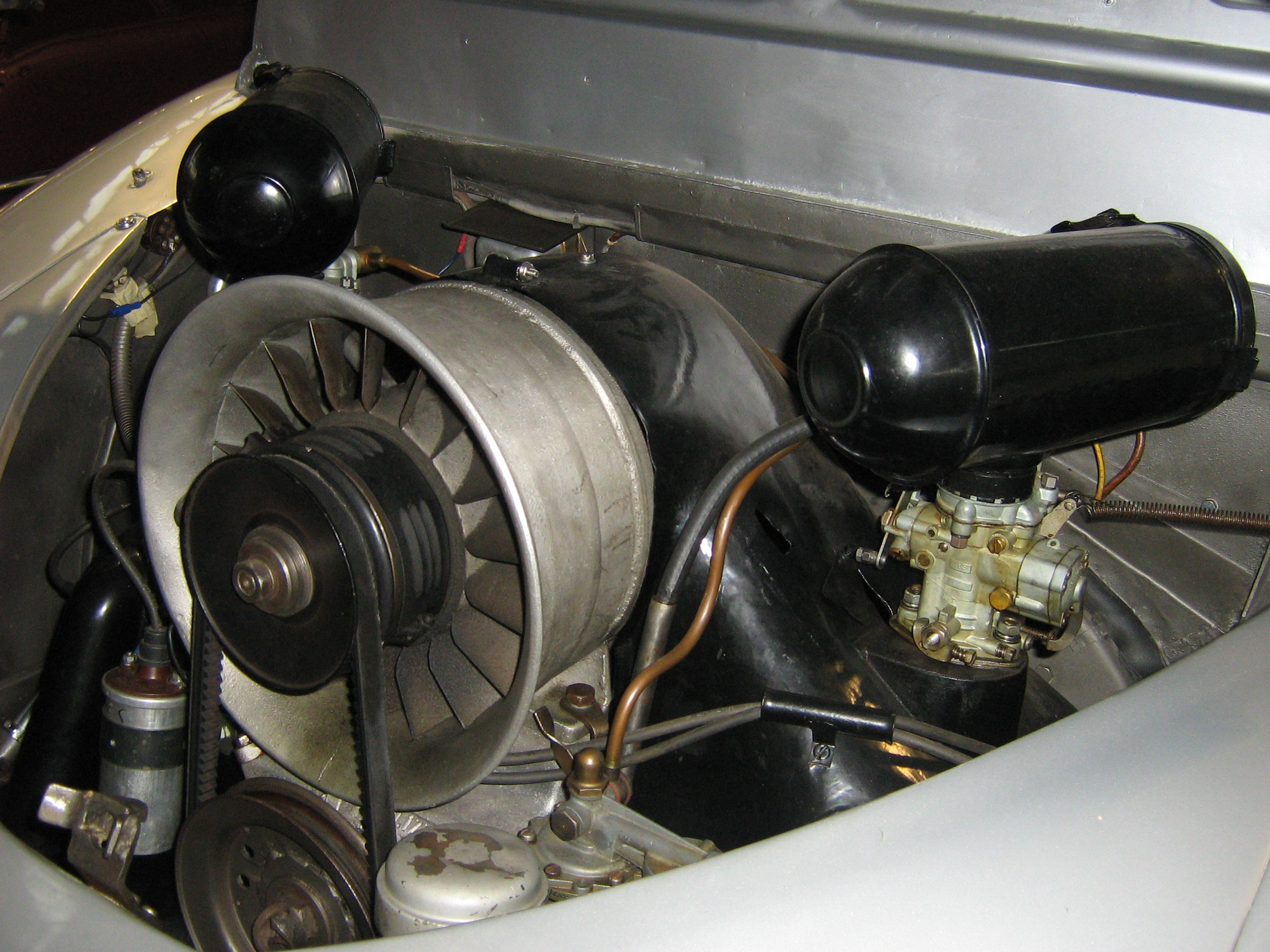 1950 Tatra T-600 Tatraplan - flat four cylinder